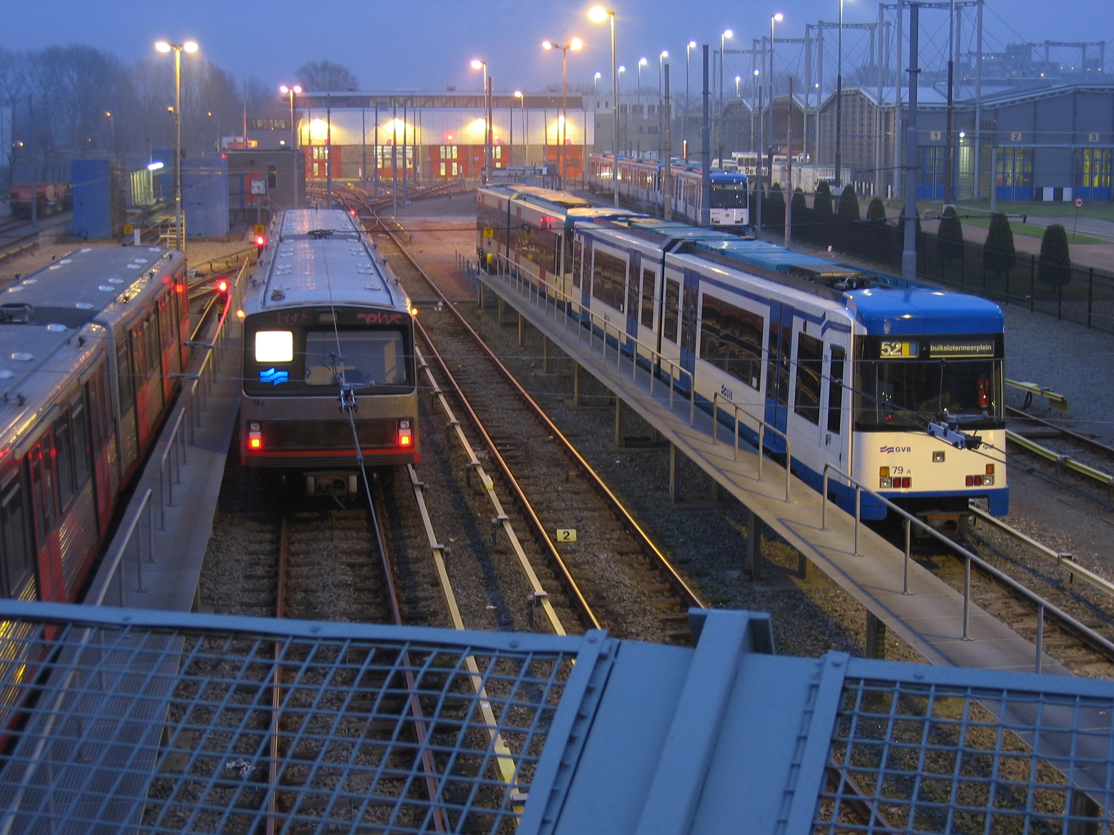 Amsterdam Subway car showing future line 52 (Noord/Zuidlijn) towards Buikslotermeerplein as it's destination. The subway is in the workshops near Diemen